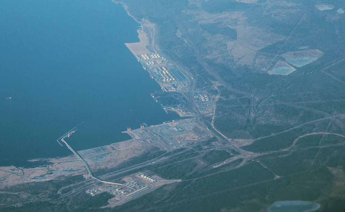 An aerial photo of the area of the Port of Ust-Luga under construction, Baltic Sea, Golf of Finland, Leningradskaya Oblast, Ust-Luga, Port of Ust-Luga 19 March 2015